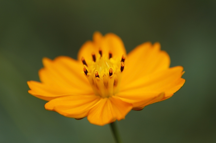 We are also celled sulfur Cosmos and Yellow Cosmos. Our hometown is Central America and people think that we are a half-hardy annual. Additionally, we are about one to seven feet, with a yellow, orange or red face. You will appreciate our beauty during July to August, but if you seed our in your garden, you can find our smile after 50 to 60 days after our baby time.